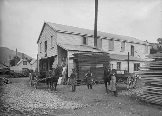 Photo of Baigent's Timber Yard (H. Baigent & Sons).